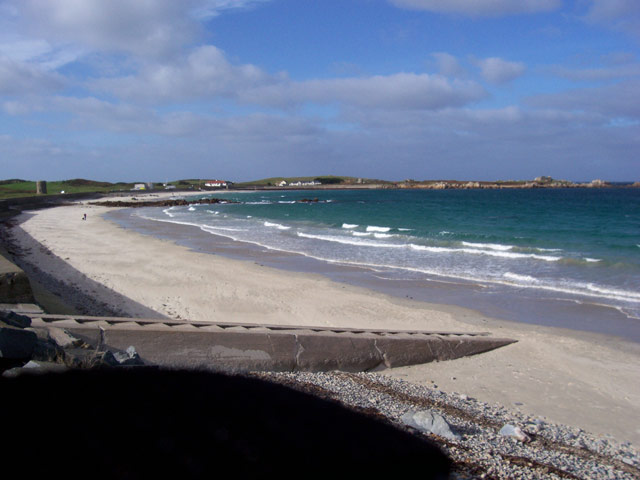 L'Ancresse Bay. A view of the superb sandy bay at L'Ancresse. There is a strong correlation between granite outcrop and wide, white sands due to the way that the granite weathers and releases grains of pure quartz. The Martello Tower can be seen at the left of the image.